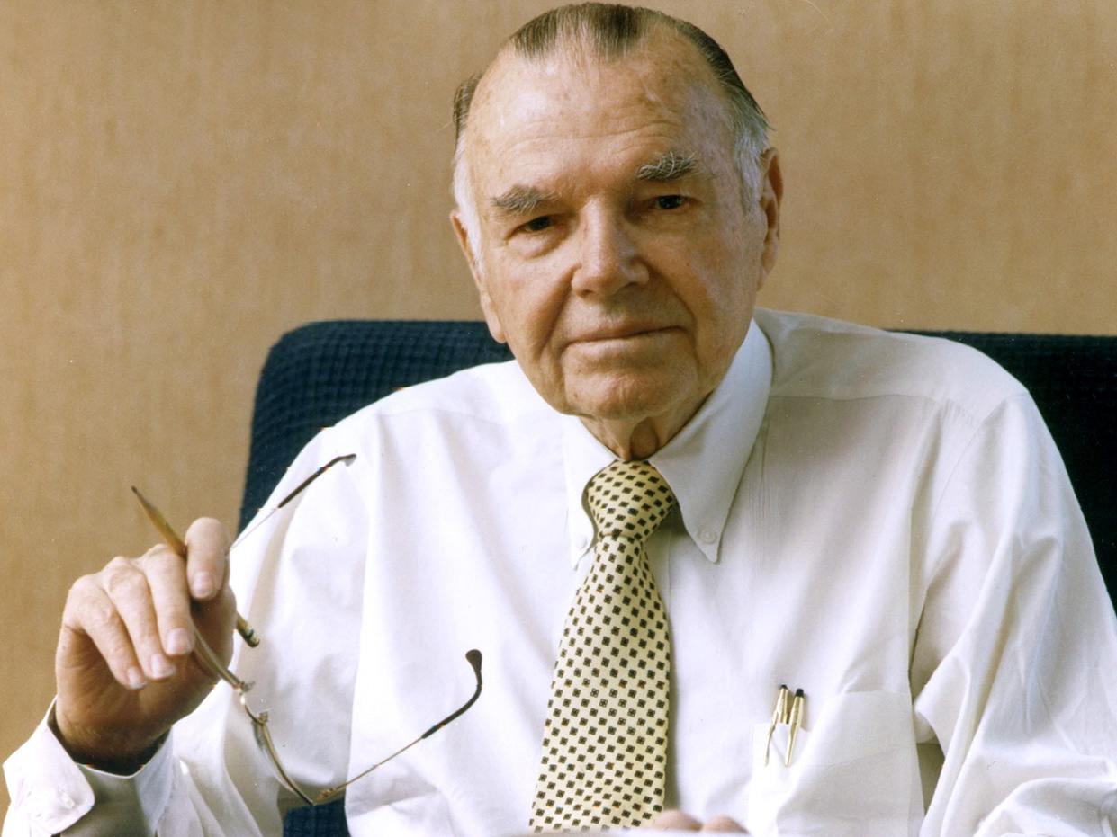 A headshot of Marvin Bower, considered the founder of McKinsey's corporate culture and of modern-day McKinsey.